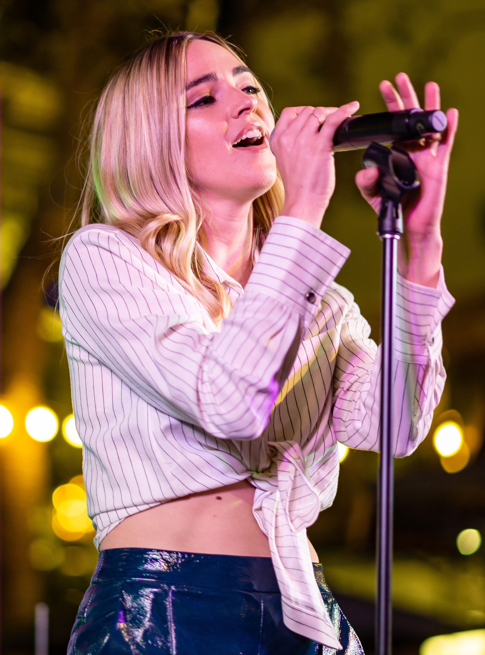 Katelyn Tarver performing live at The Grove in Los Angeles, California, on Thursday, October 11, 2018. Part of the "Playlisted" concert series presented by Nylon Magazine and sponsored by Citi.